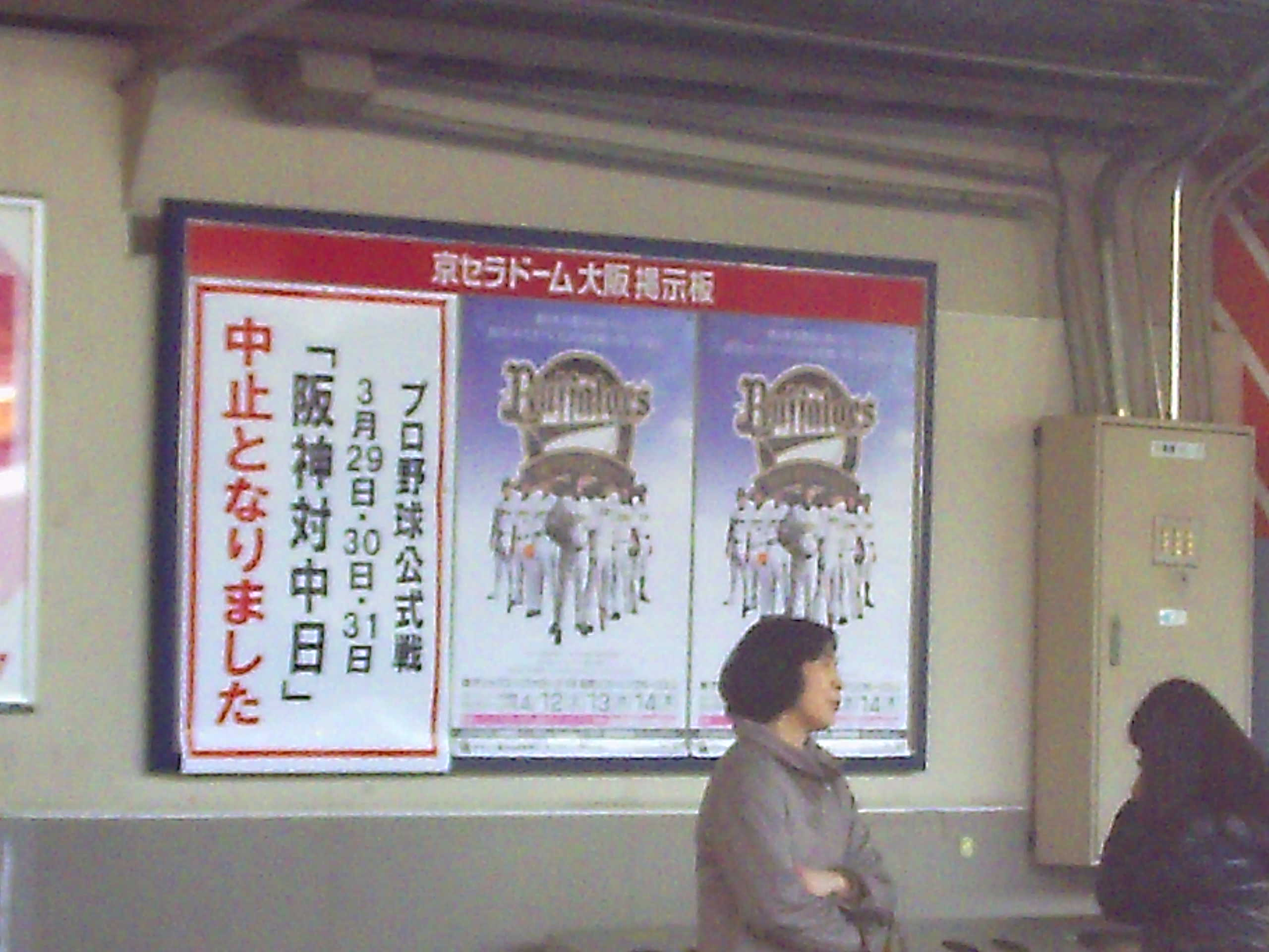 The professional baseball that match cancellation was decided on Touhoku-Tsunami_Shock at JR-West Taisho Station from Kyosera Dome Osaka